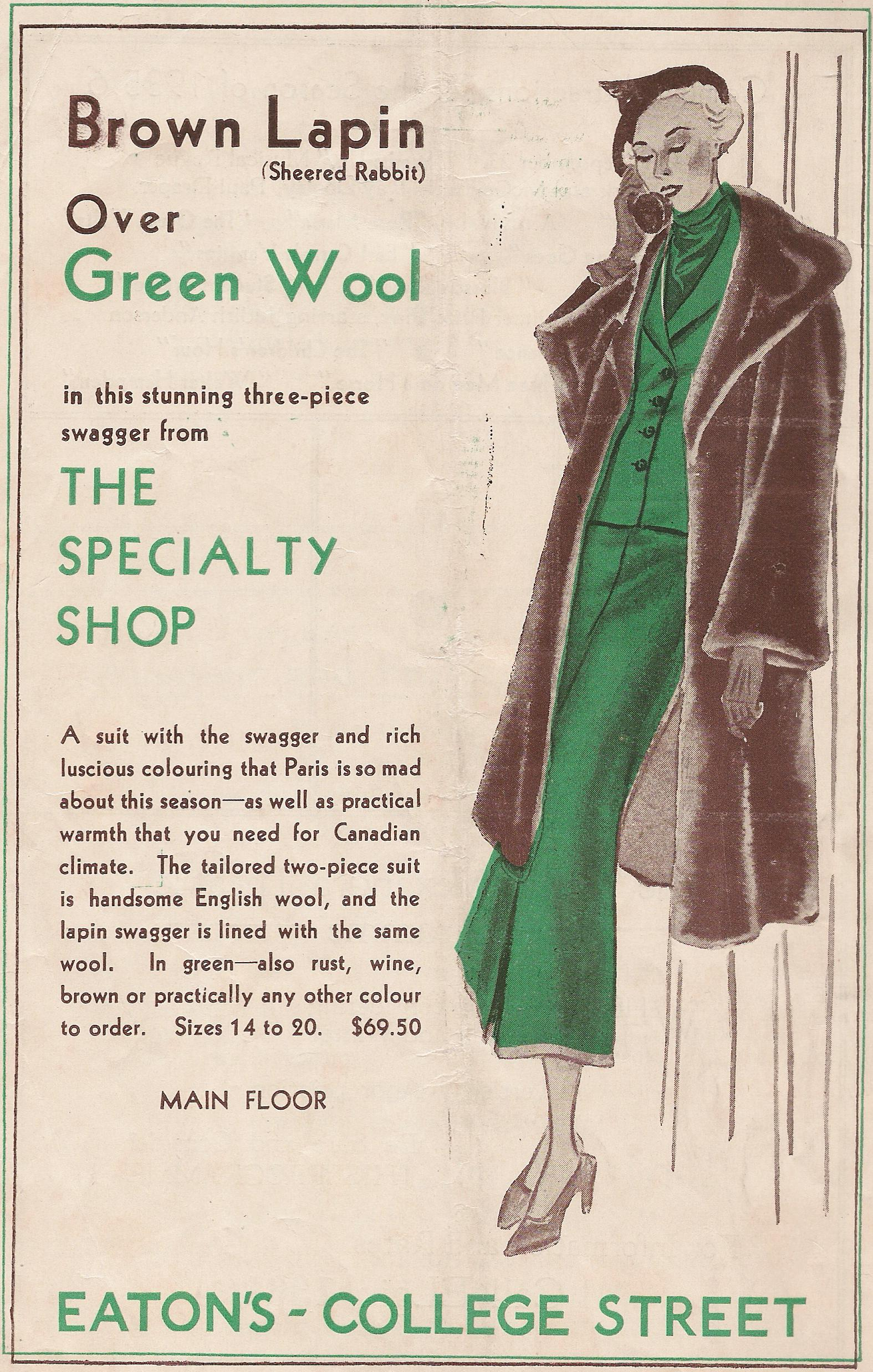 An advertisement for a women's rabbit skin coat and a green wool suit, available at Eaton's College Street. Toronto, Canada.